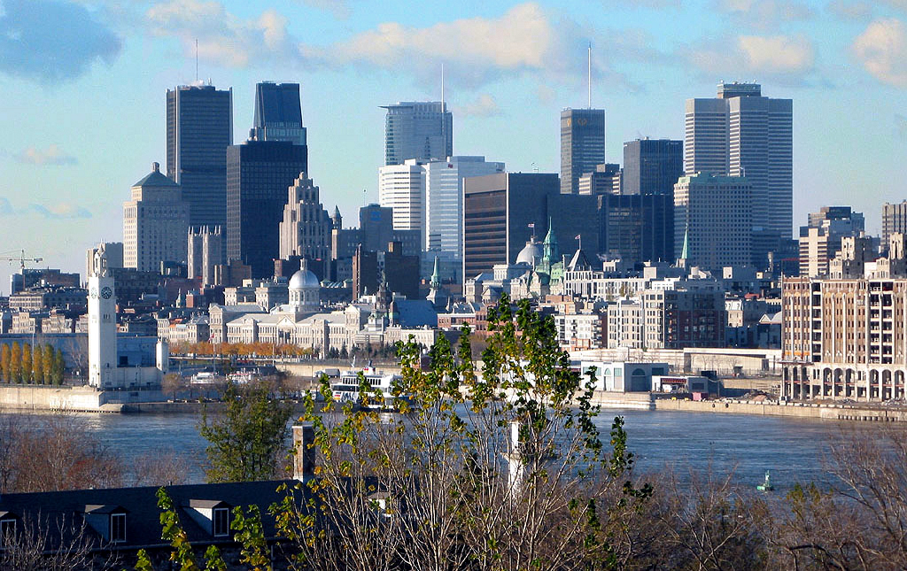 View of downtown Montreal.